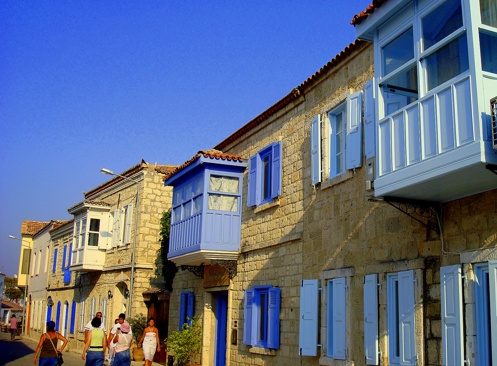 Streets in Cesme, Turkey